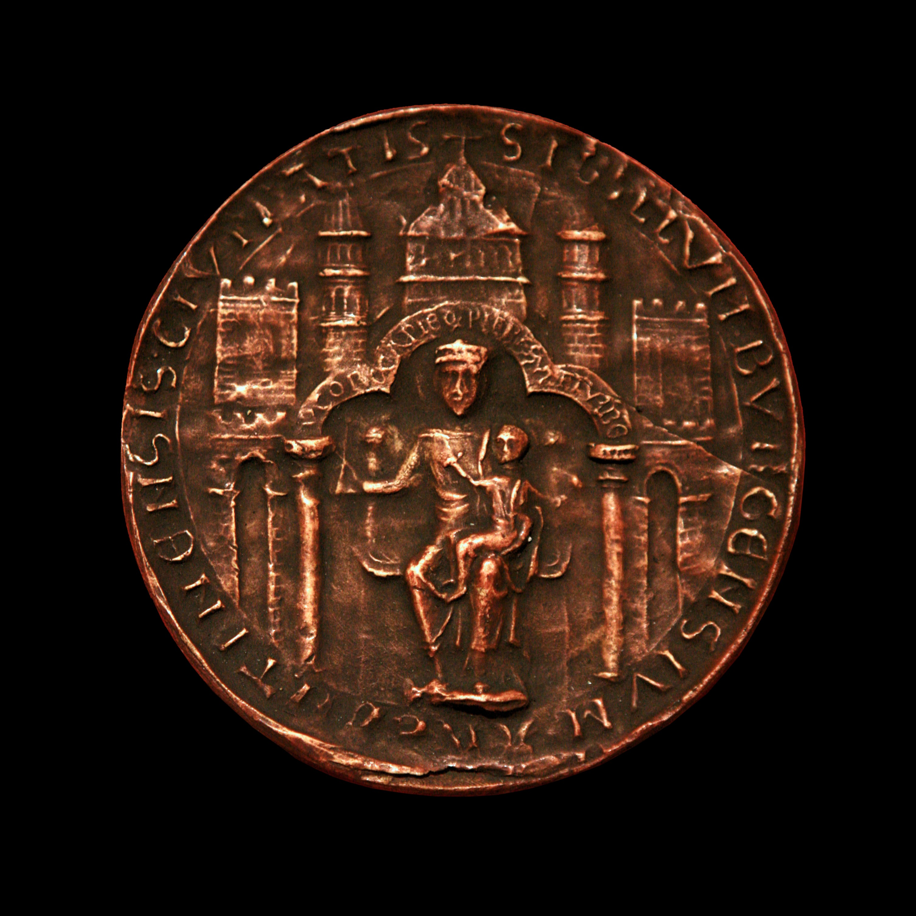 Moulding of the seal of Strasbourg in 1201, made by Charles Haudot. On display at the Musée historique de Strasbourg.